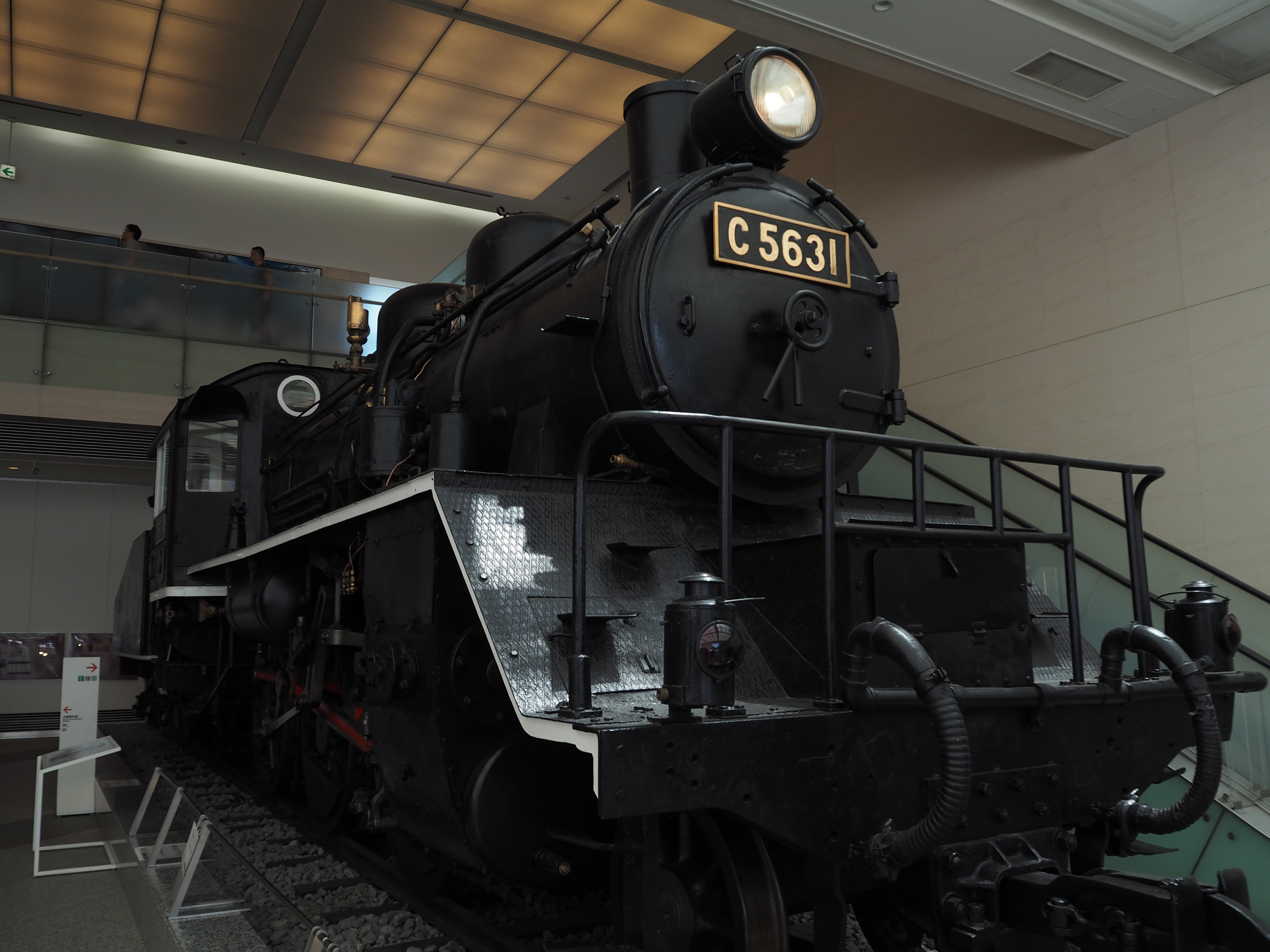 The train display at Yasukuni Shrine was originally deployed in Thai-Burma railway during World War II. It was brought back to Japan and display in the welcome section of Yasukuni War Museum